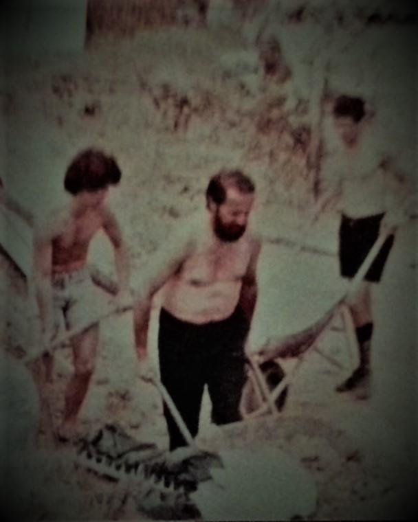 Don Nicola Palmisano (Taurisano 1940 - Rome 1993) at work for the reconstruction after the earthquake in Santomenna in the province of Salerno in the summer of 1981. Image digitally reconstructed.